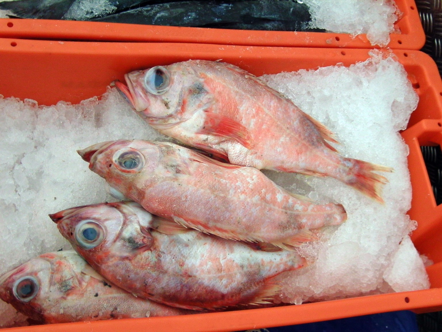 Rose fish (Sebastes marinus)